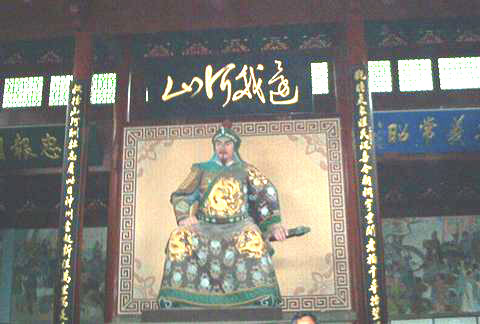 Conforme Yue fei-brightened.jpg (36KB, MIME type: image/jpeg) This image was created by brightening Image:Yue_fei.jpg, created by User:Yuje. This image was created by brightening Image:Yue_fei.jpg, created by User:Yuje.